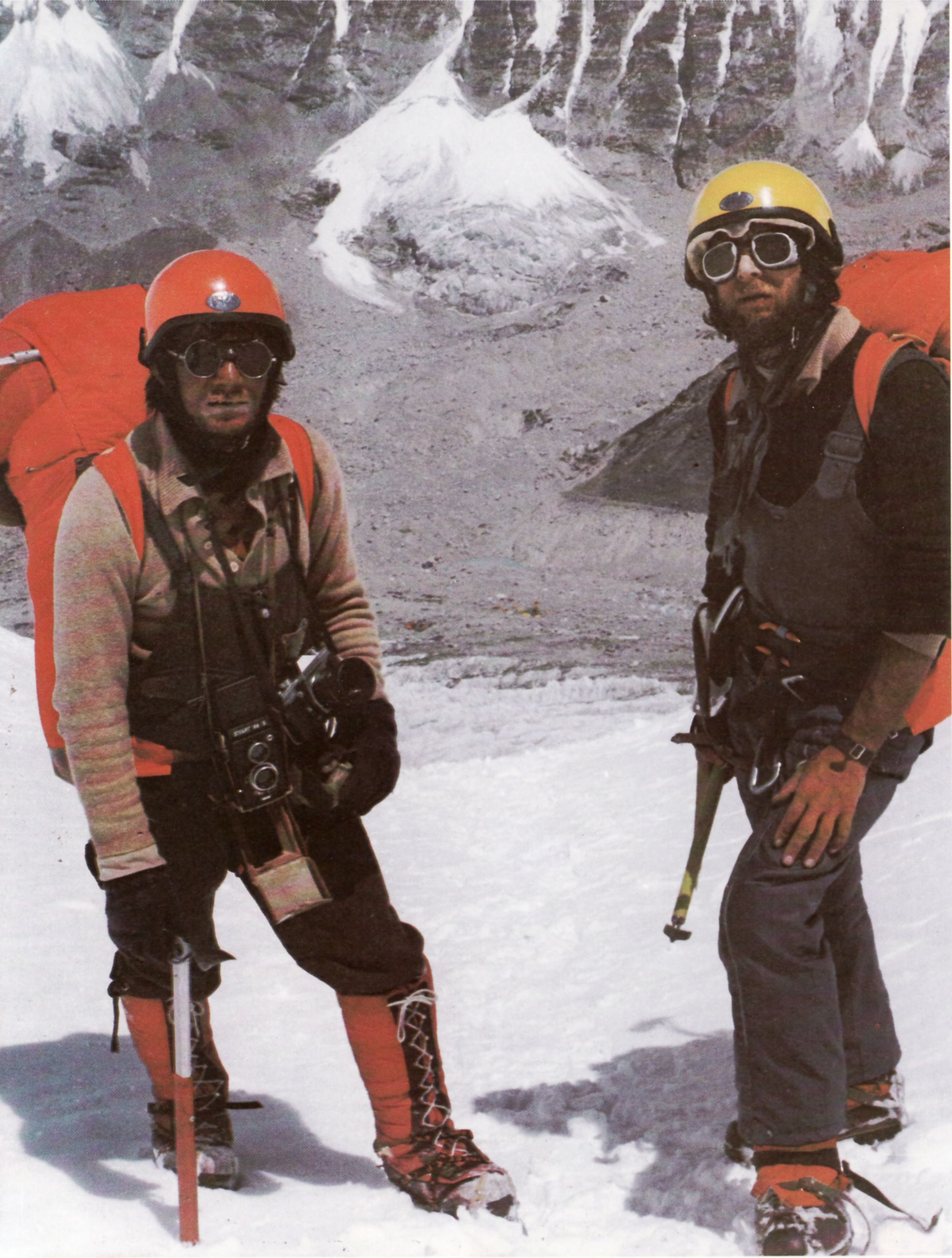 Jerzy Kukuczka and Andrzej Czok during 1980 spring expedition to Mount Everest. On May 19, 1980 they climb the mountain through new route.